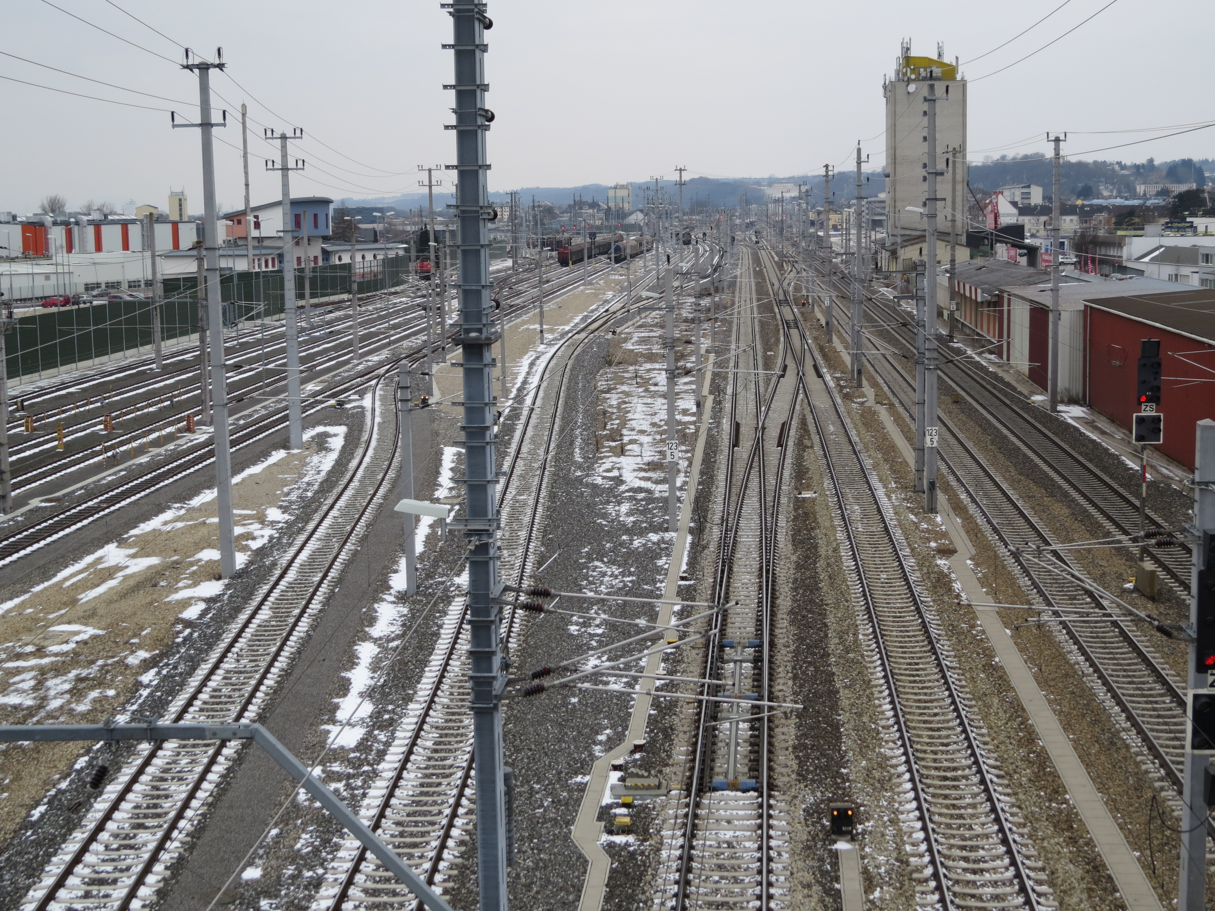 Bahnhof Amstetten at direction Linz